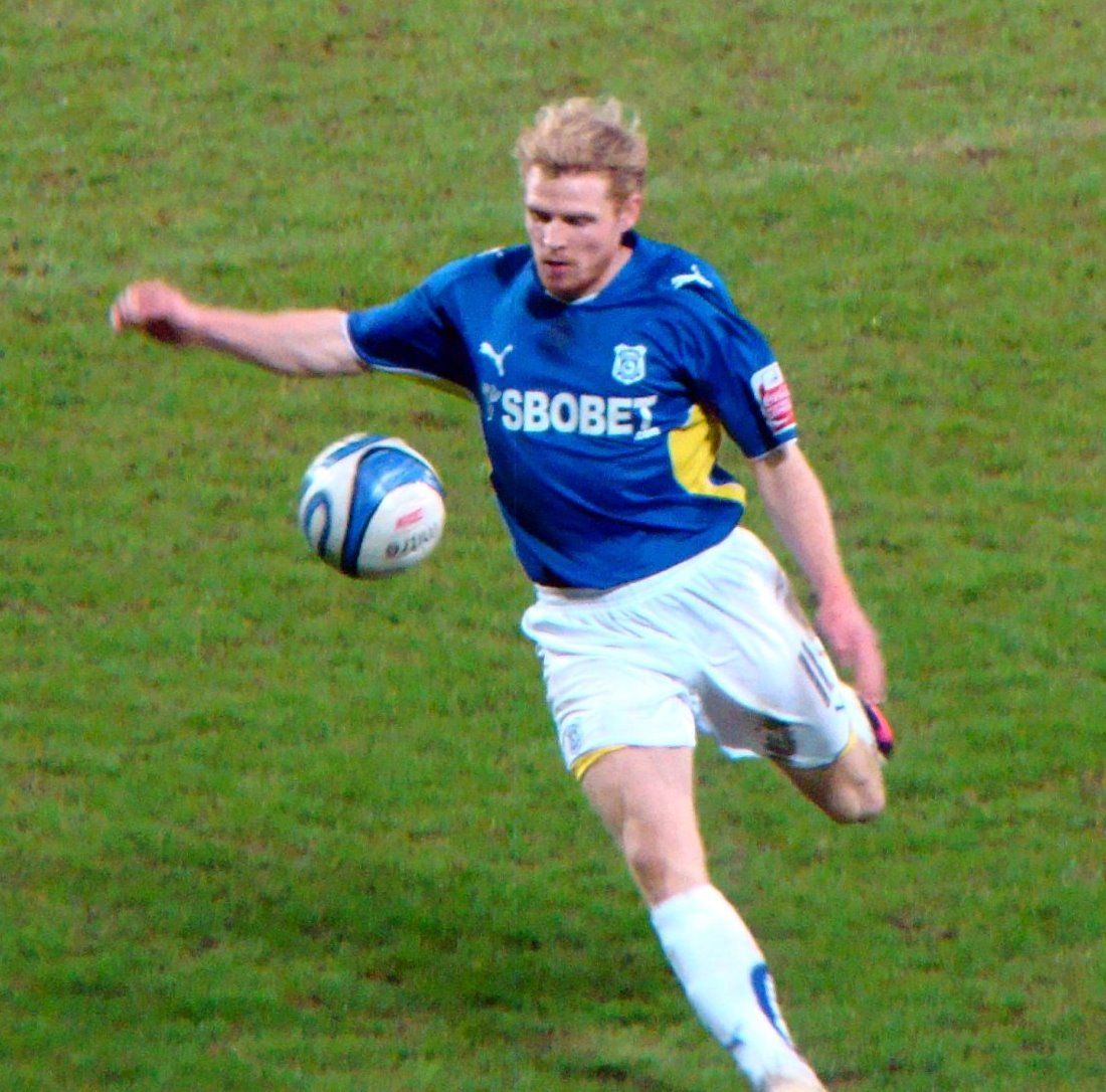 16/02/10 Cardiff V West Brom, Championship, Cardiff City Stadium, Cardiff, Wales